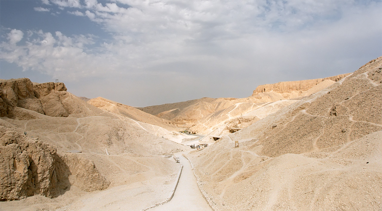 A view down the Valley of the Kings, Luxor, Egypt.